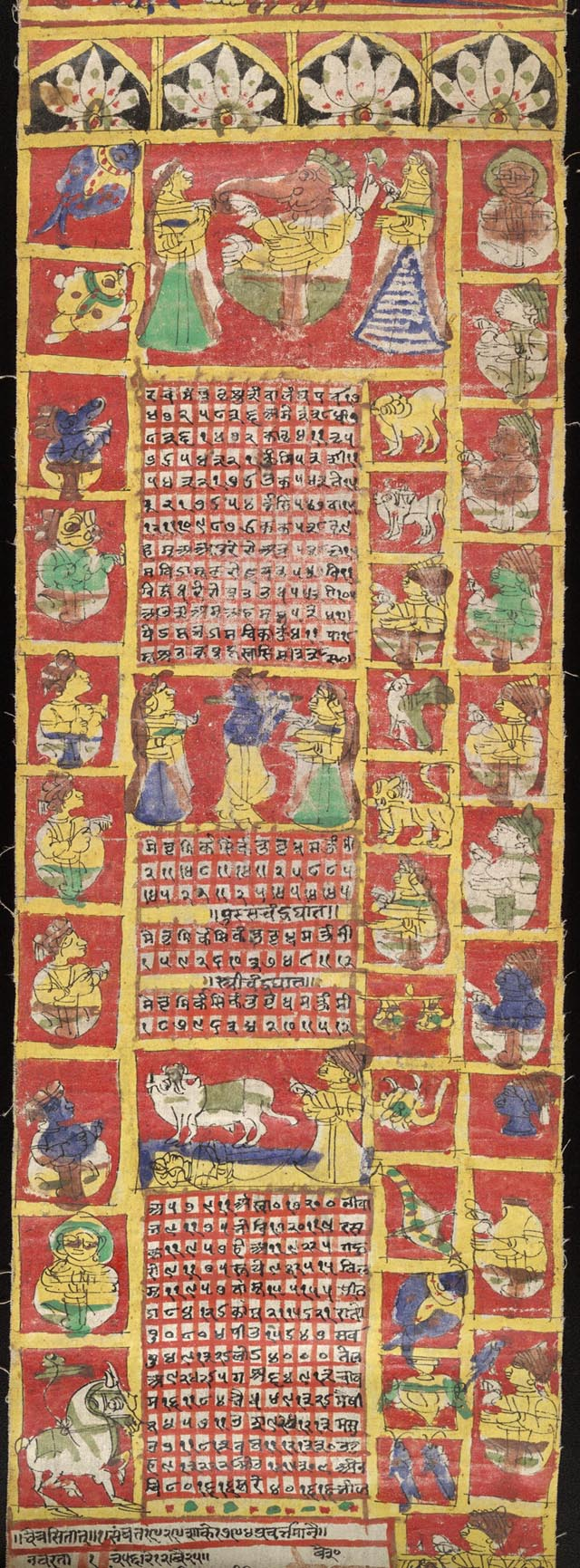 Fabric Hindu calendar/almanac corresponding to Western years 1871-1872. From Rajasthan in India. The left column shows the ten avatars of Vishnu, the center-right column shows the twelve signs of the Hindu zodiac. Top middle panel shows Ganesha with two consorts. The second panel shows Krishna with two consorts.